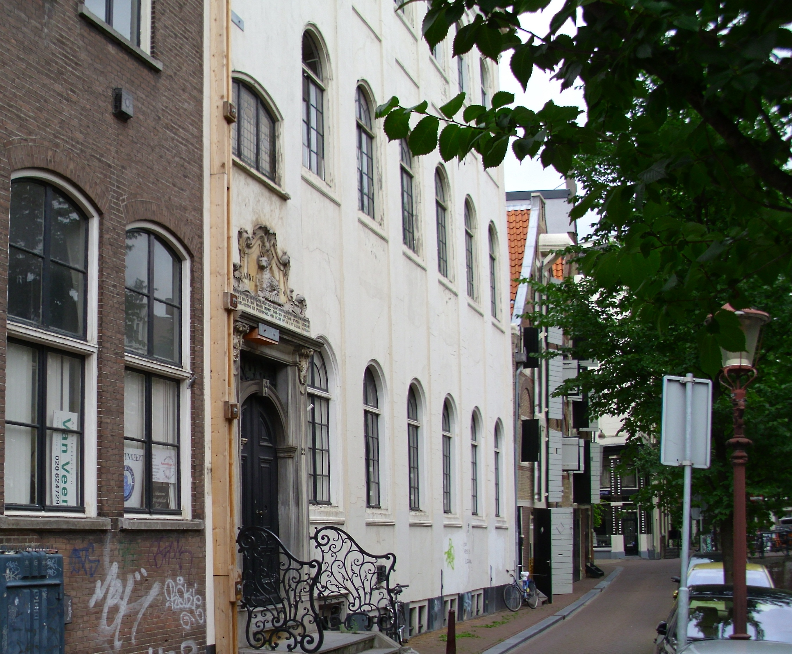 Armenian church in Amsterdam